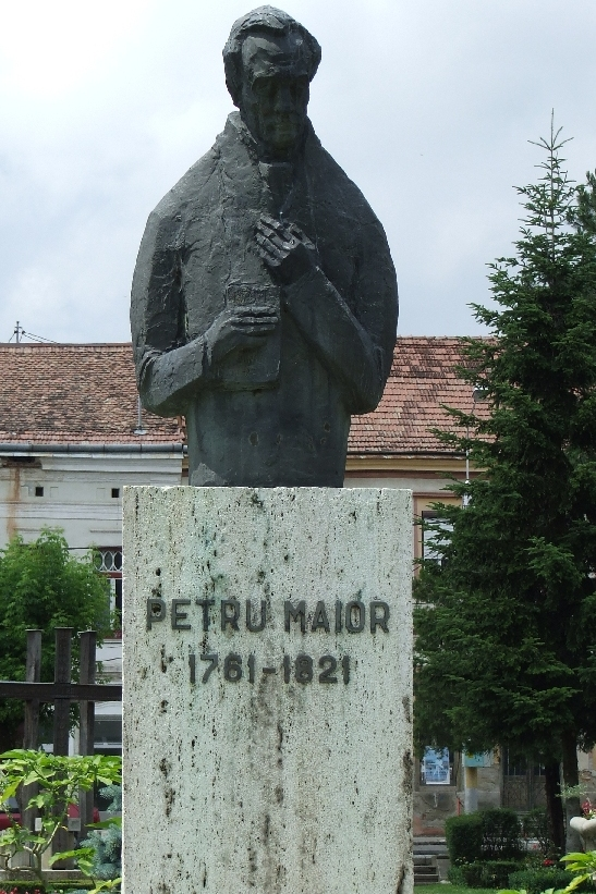 View from Reghin, Romania